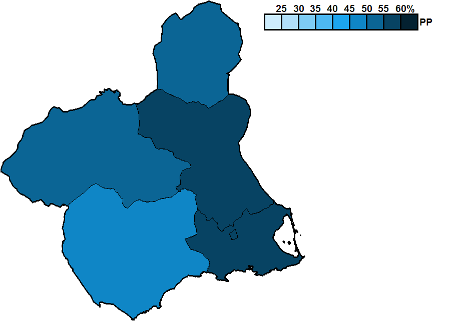 District results for the 2003 Murcian regional election.